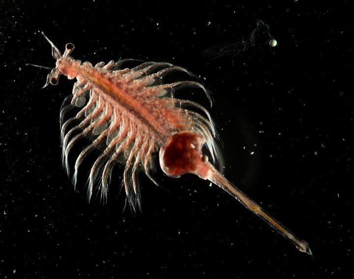 Photograph of Artemia where can be seen the eleven pairs of legs and the capsule with still unhatched eggs. Photo Quintas.